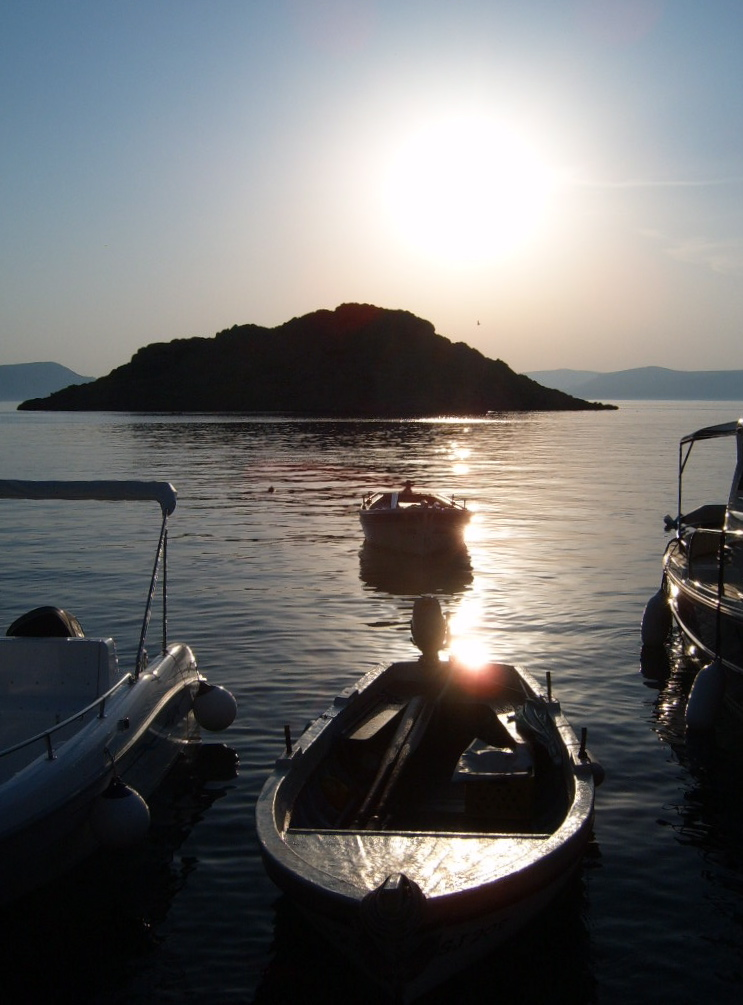 Sveti Juraj, Croatia Photographer: Markus Bernet Date: 08/01/2005